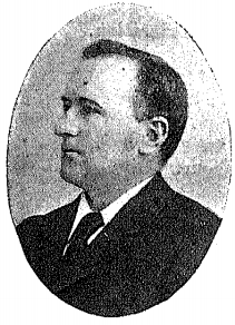 Thomas Ashton, Secretary of the Spinners' Amalgamation